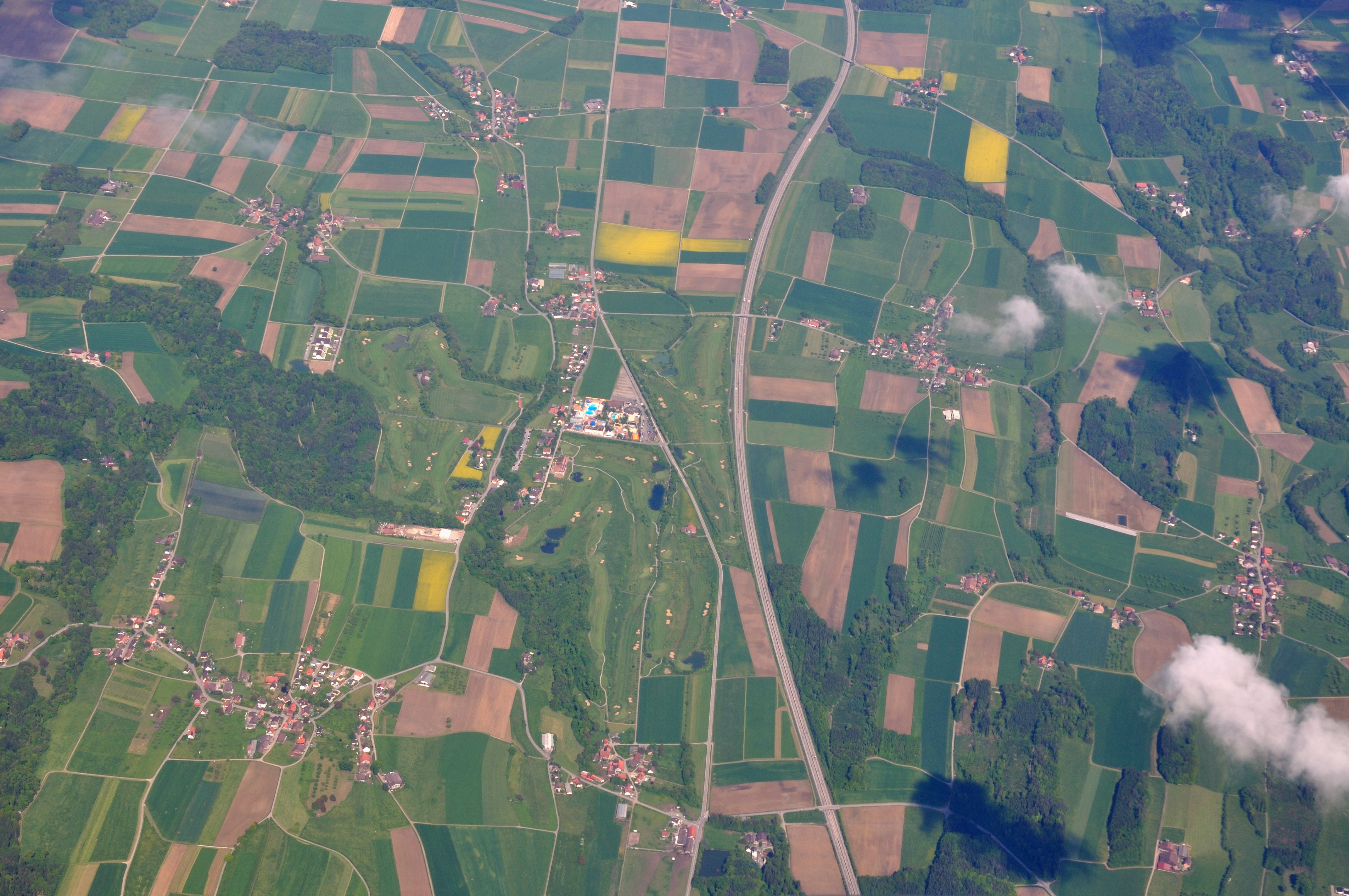 Switzerland, Thurgau, aerial view overhead Pfyn. Centre: view of Lipperswil with Connyland amusement park and golf course.